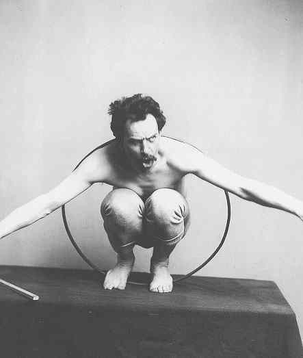 Franz Boas posing for figure in USNM (National Museum of Natural History) exhibit entitled "Hamats'a coming out of secret room" 1895 or before 1 8x10 in photograph Black and white original glass negative